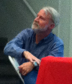 Steven Kerckhoff speaking in Annenberg Auditorium, Stanford University, Stanford, California.